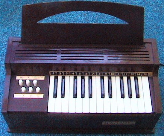 Magnus Electric Chord Organ Model 300 - circa 1970s